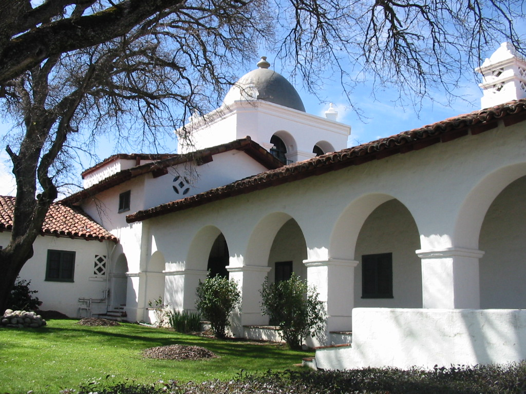 Moorish style northwest tower of the building known variously as The Hacienda, Hacienda Guest Lodge, Milpitas Ranch House, Milpitas Ranchhouse, and Milpitas Hacienda. This building was completed in 1930 by William Randolph Hearst and his architect Julia Morgan. It's operated today as a public hotel within the Fort Hunter Liggett US Army Reserve base.